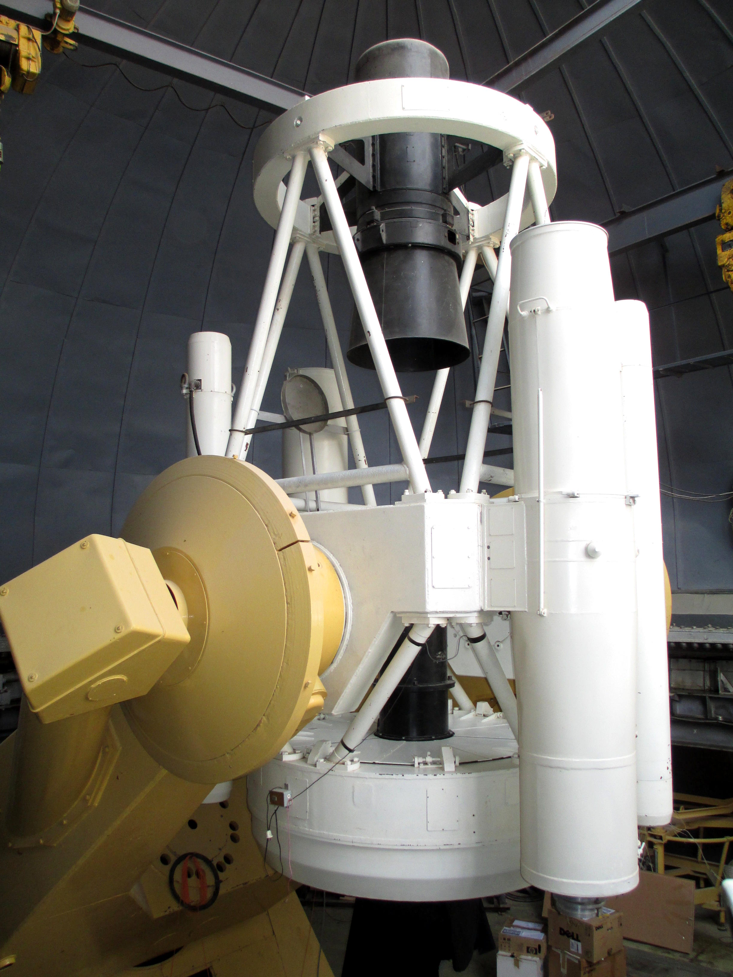 Azt-22 telescope. Maydanak, Uzbekistan